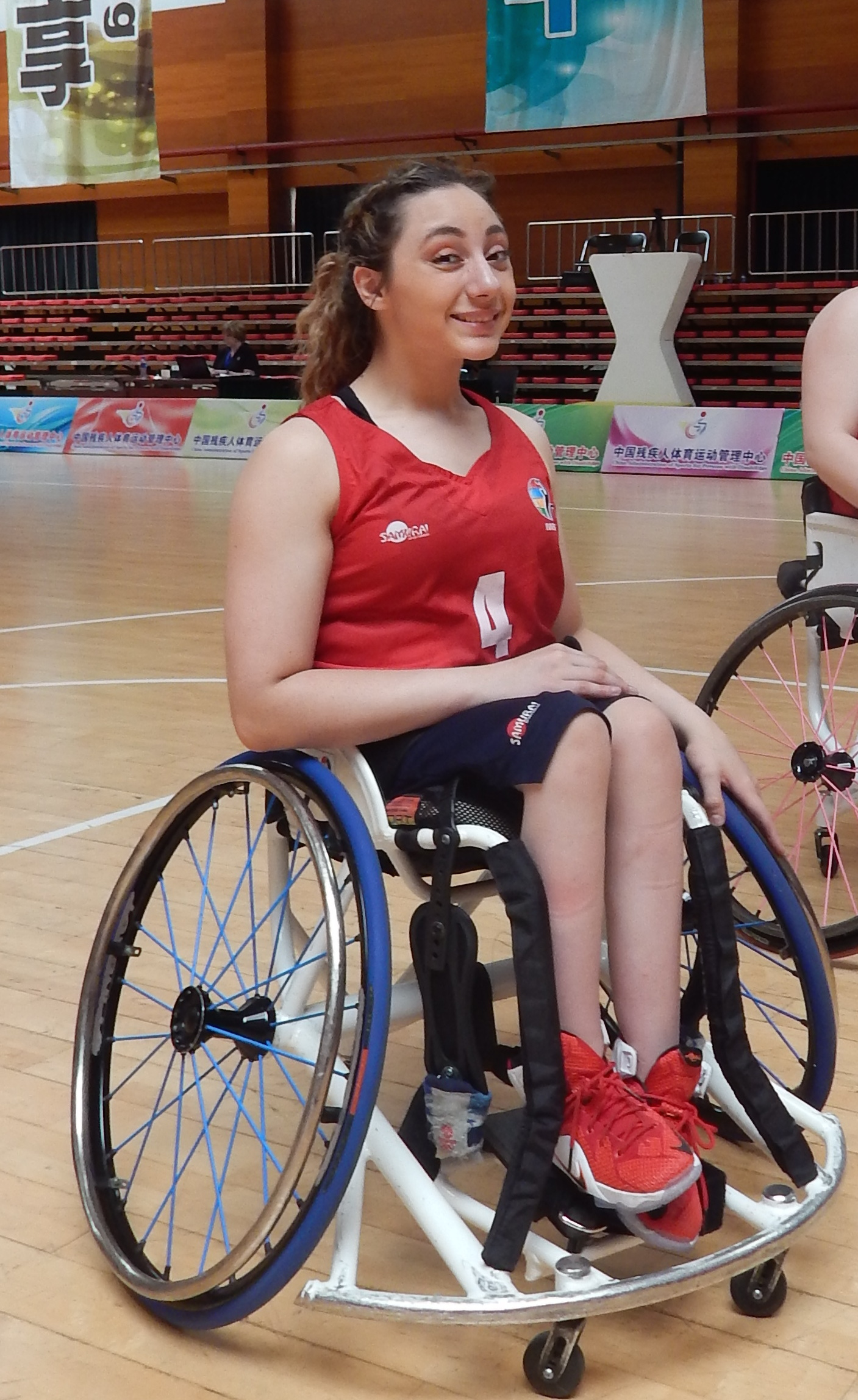 U15 Women's U25 Wheelchair Basketball World Championship - Team Great Britain - Charlotte Moore